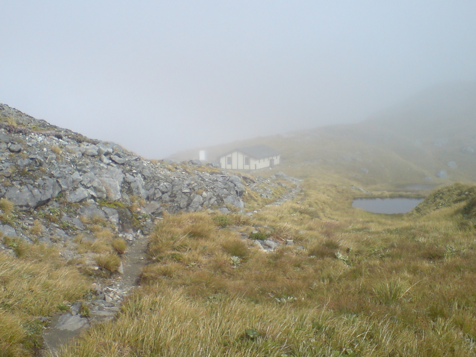 The shelter hut at the top of the McKinnon Saddle, the mountain pass that one has to cross westwards on the Milford Track in Fiordland National Pass, New Zealand. This hut is intended only as a short-time / emergency shelter, and is also divided into two internally, for the guided walks people, and the 'Freedom Walkers'. It is located in a very exposed position (it has to be, there are few sheltered places there at all), and at least two previous huts have simply been blown away eventually. This one looked a bit more solid, what with the concrete base and all. Nevertheless 2010 it had been replaced.